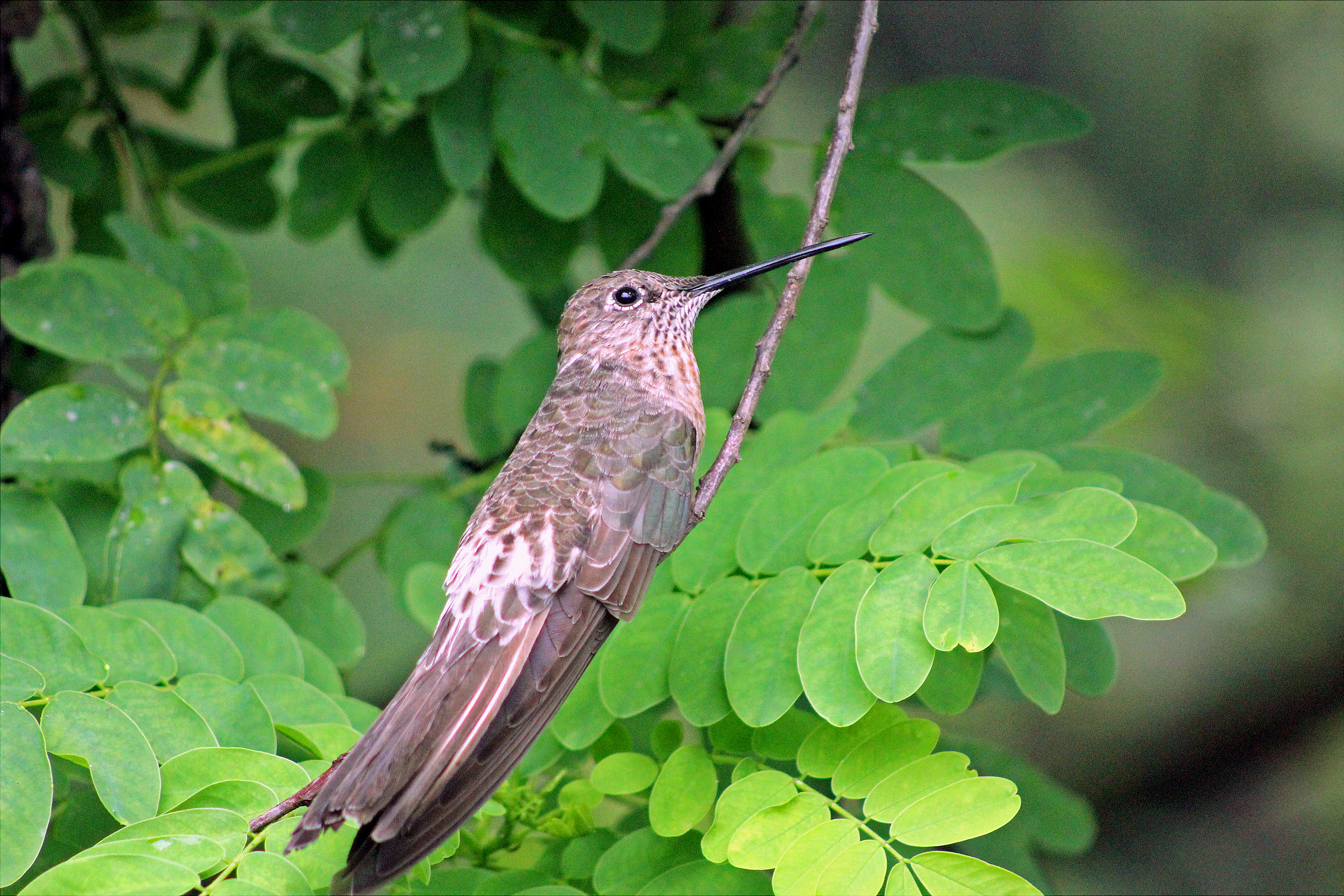 FIELD MARKS-Giant Hummingbirds tend to feed while perched rather than when hovering. Its size makes it unmistakable. Upperparts are dark green with a white rump. Underparts are brownish on the male and greyish on the female.